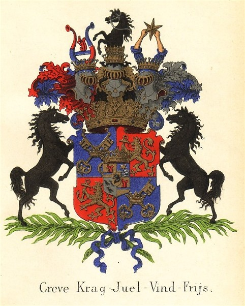 Coat of arms of the comital Krag-Juel-Vind-Frijs family